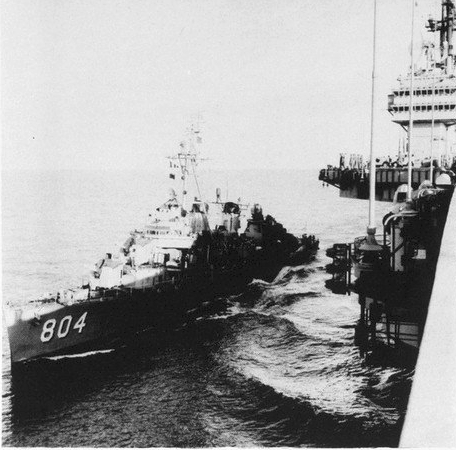 The U.S. Navy destroyer USS Rooks (DD-804) escorting the aircraft carrier USS Saratoga (CVA-60) during her shakedown cruise to the Atlantic Ocean from 18 August to 15 October 1956.